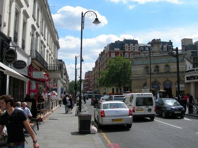 Gloucester Road SW7. Gloucester Road Underground Station is to the right of this picture.